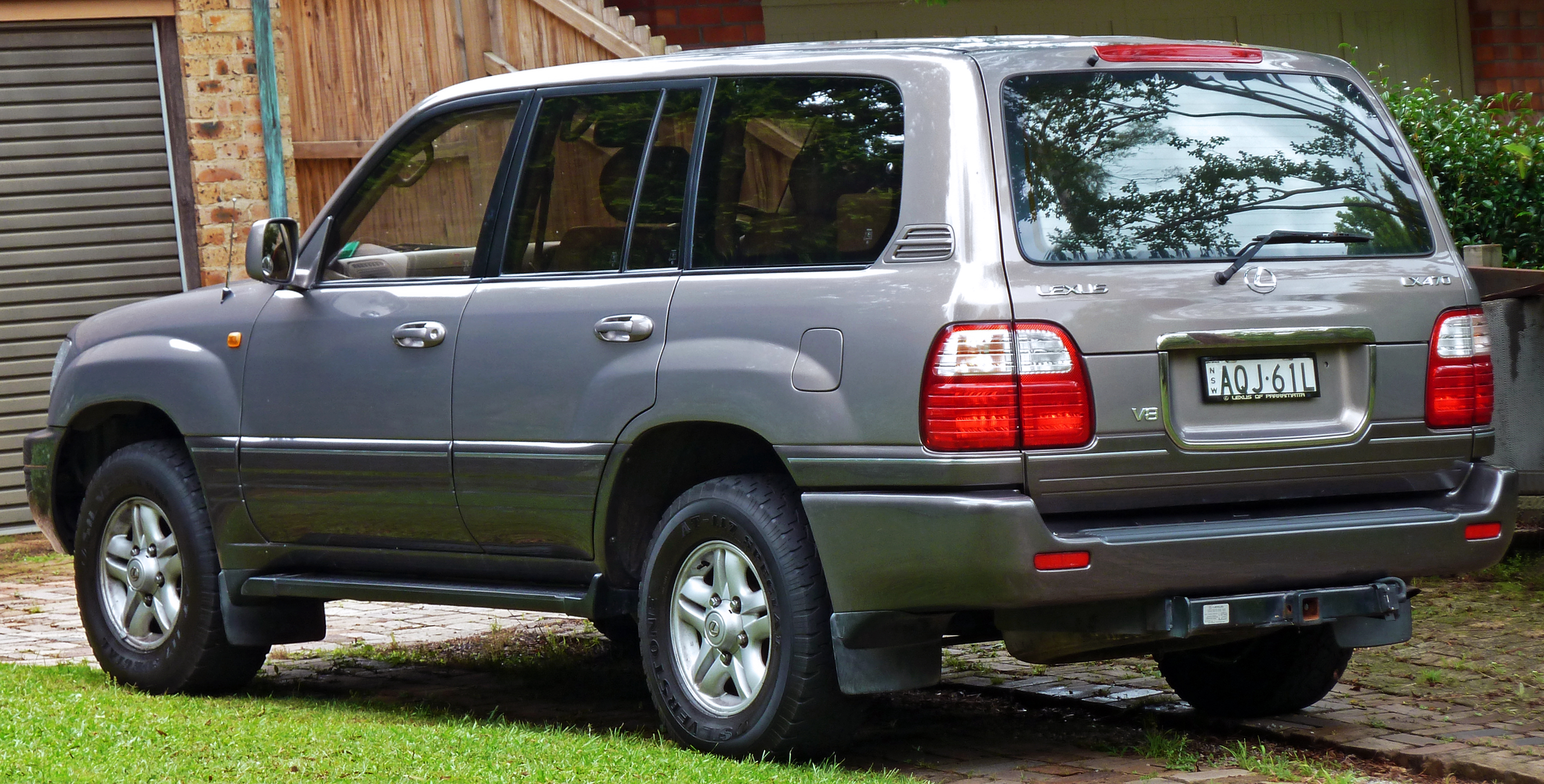 1998–2002 Lexus LX 470 (UZJ100R) wagon. Photographed in Killara, New South Wales, Australia.